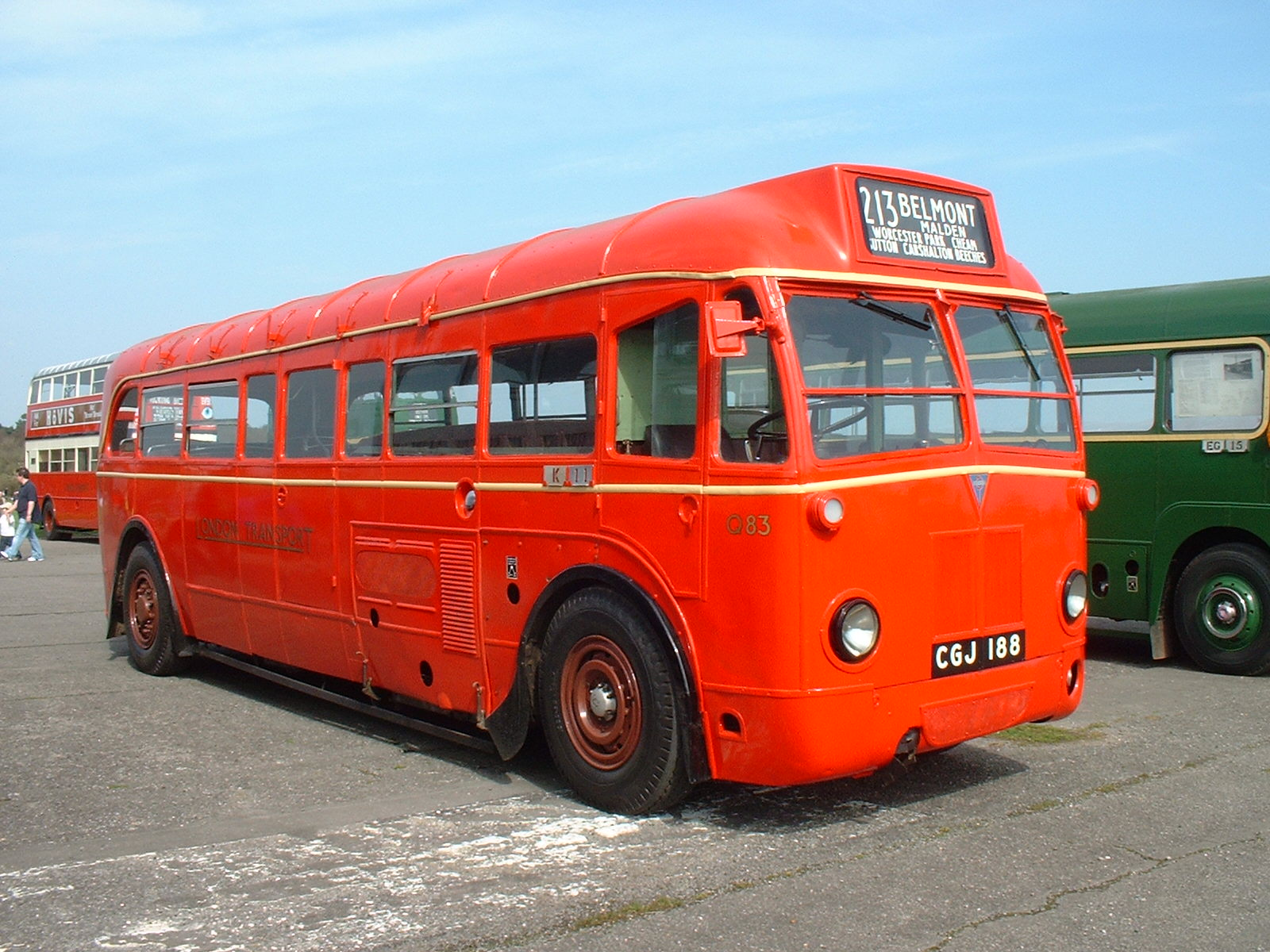 Q83 now owned by Cobham Bus Museum (photo James Race please credit if used)